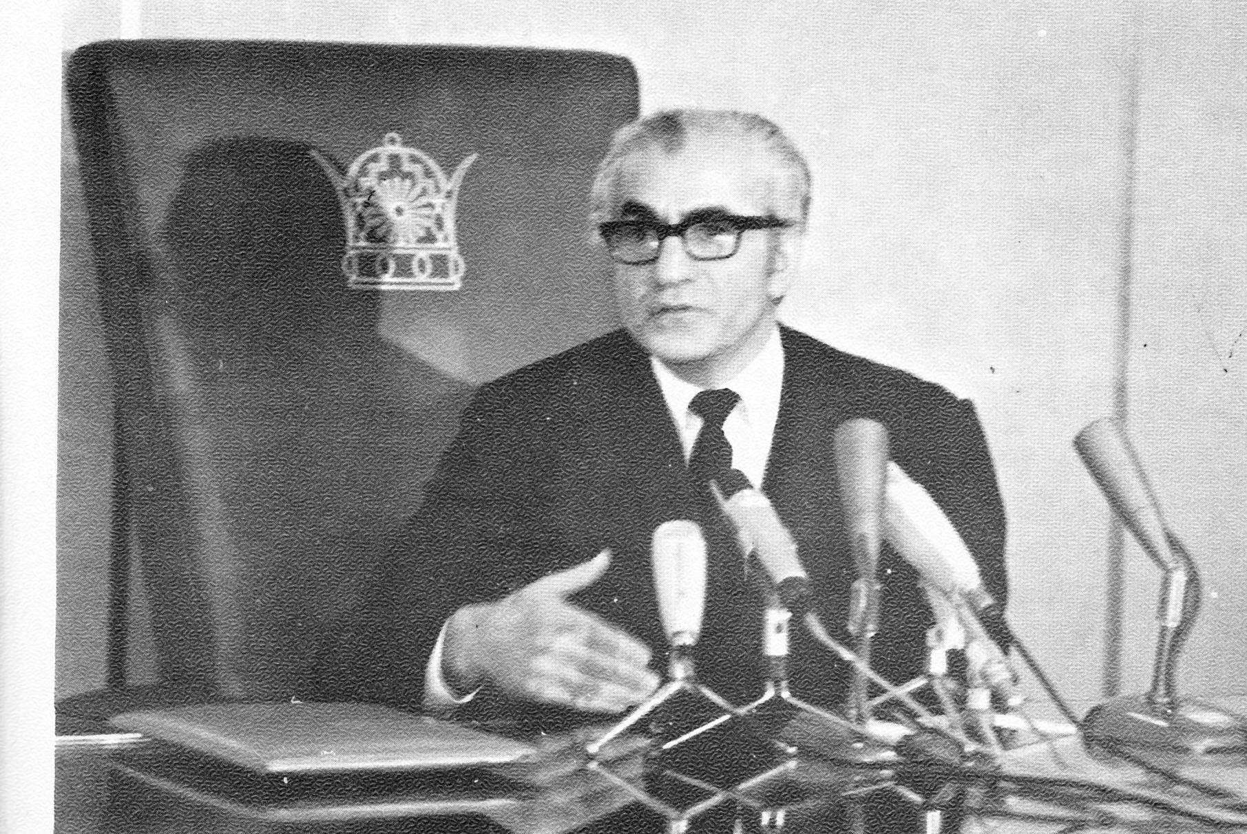 Shahanshah in historical press conference in Niavaran Palace 4 Bahman 1349 equal to 24 January 1971